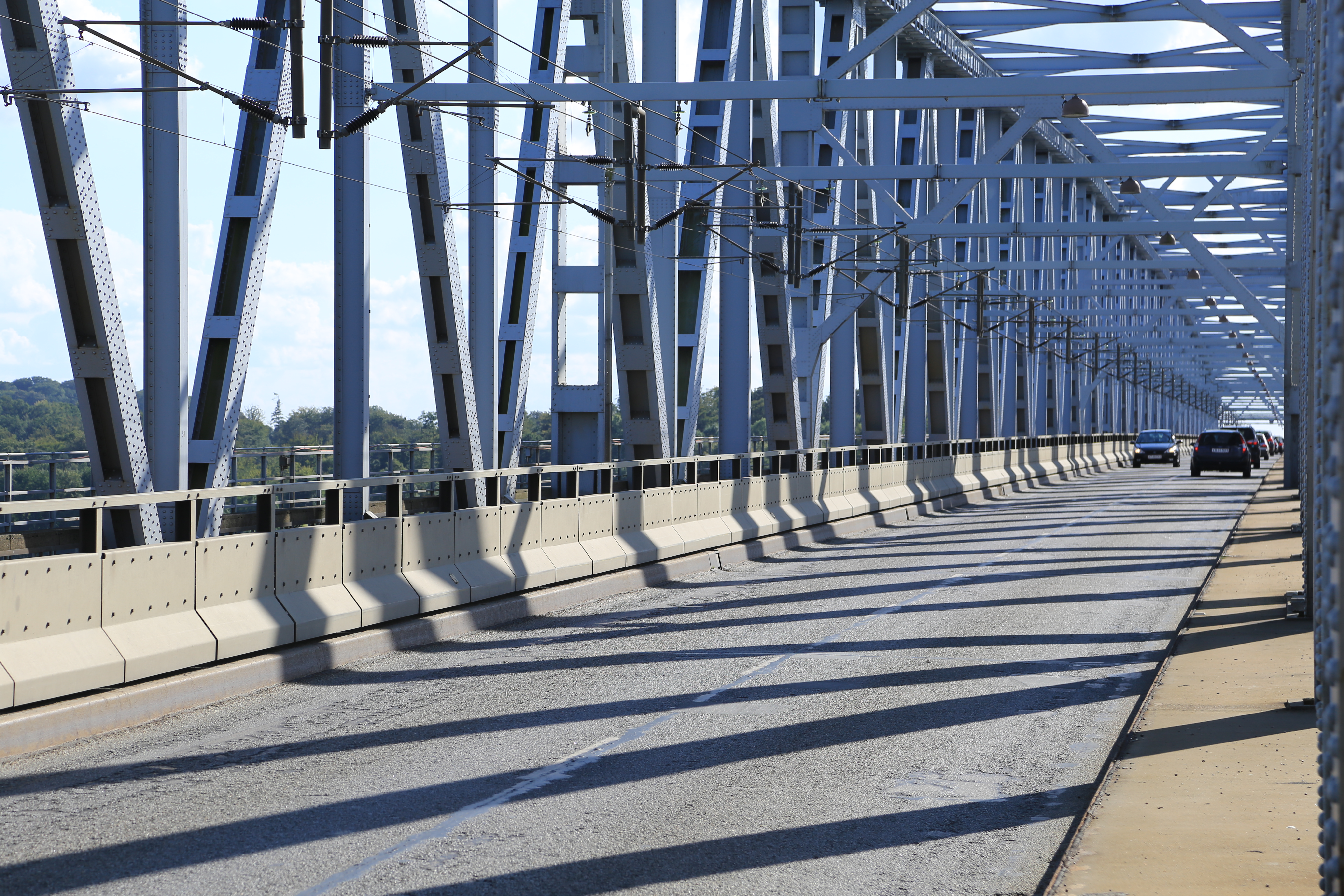 The Little Belt Bridge (1935) seen towards Funen.